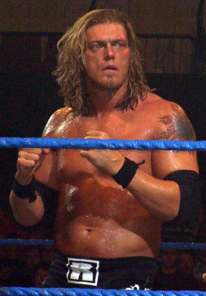 Edge @ Adelaide, South Australia 'Smackdown/ECW' house show on the 14th of June '08